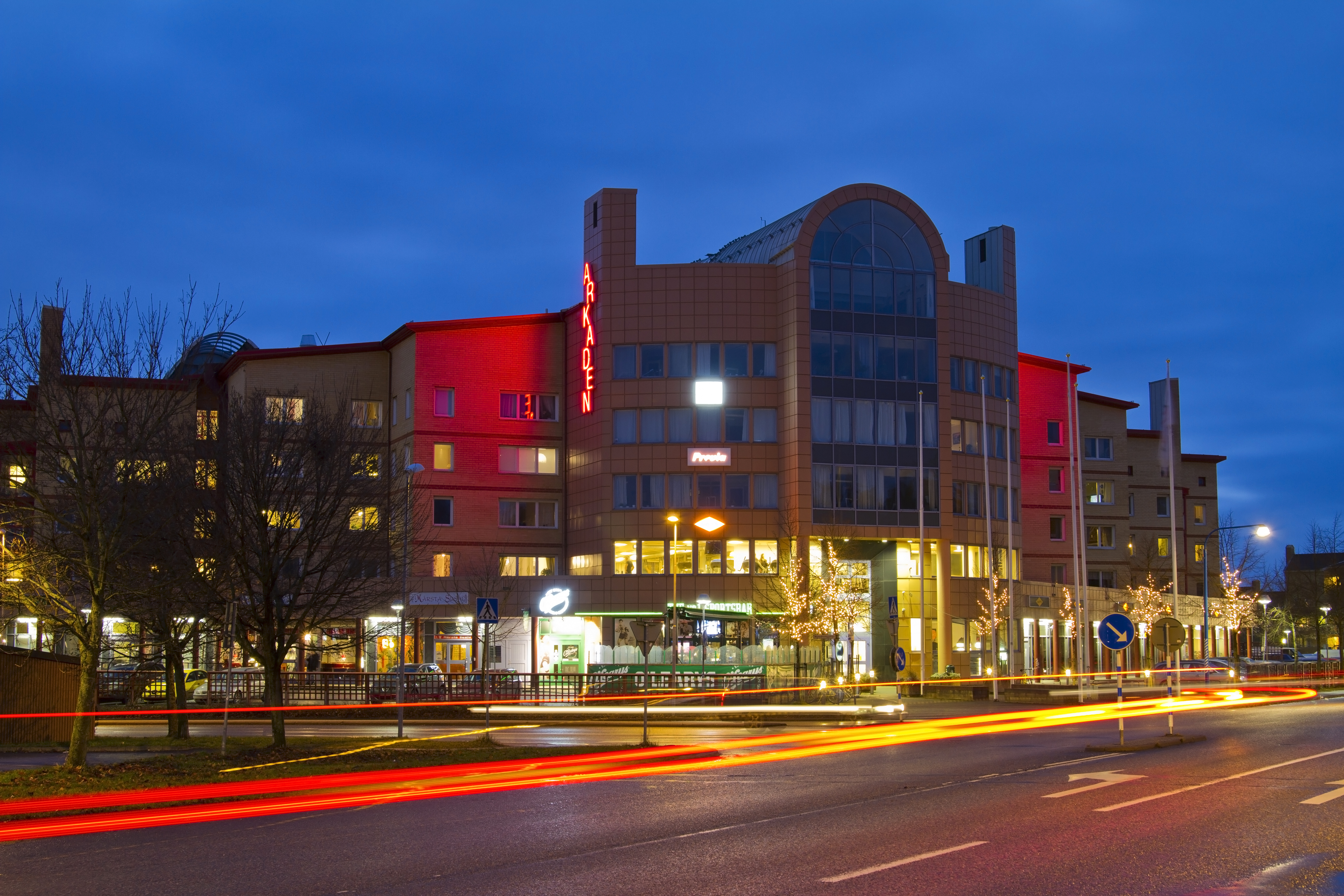 "Arkaden" restaurant and office area in Märsta City, Sweden